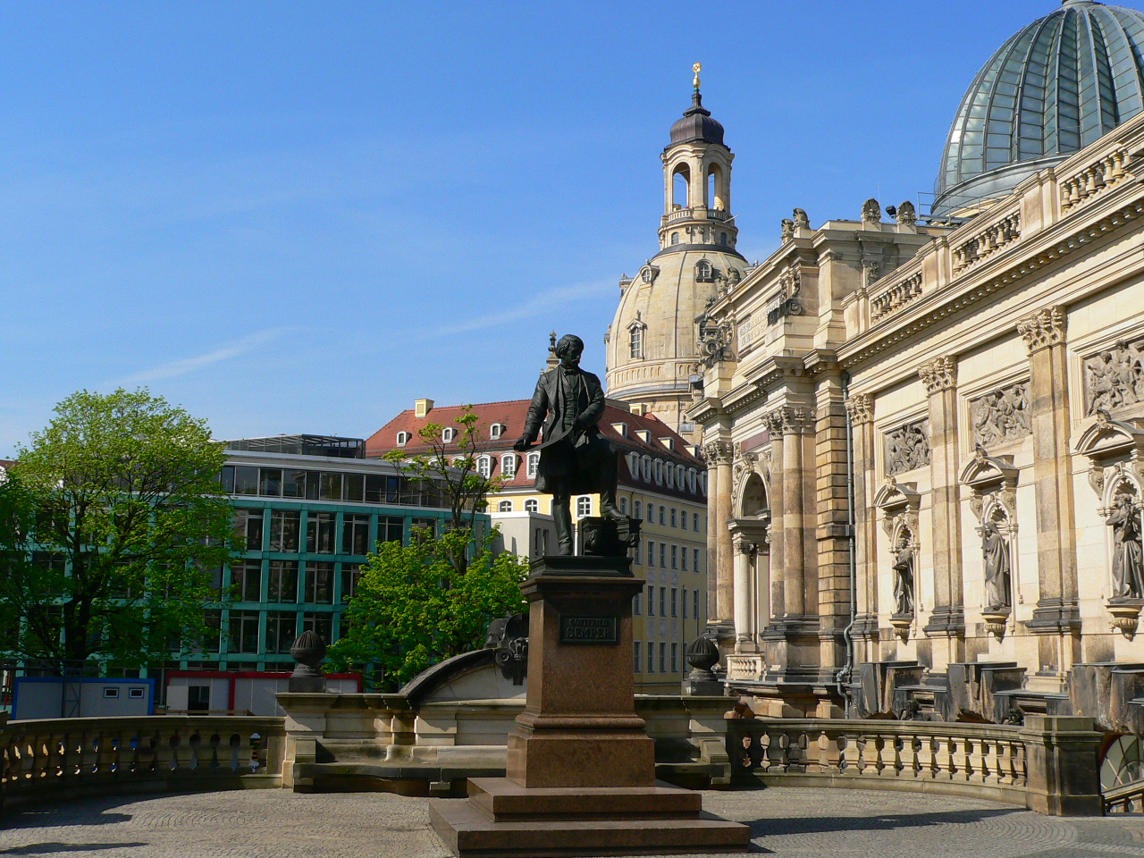 G.Semper Dresden